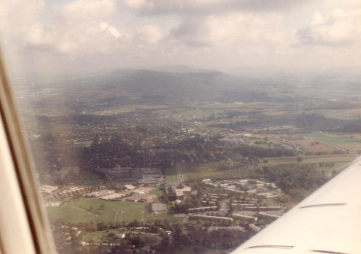 October 1988 aerial view of Mount Nittany as seen from State College, PA looking along Waupelani Drive. Taken from Penn State aircraft N911PS. The straight (vertical) stretch of road in the center of photo is Waupelani Drive. Executive House Apartments and Imperial Towers are below that section of road in this photo. The large apartment complex to the right of Waupelani Drive is Lion's Gate. At the bottom left, the South Building of the State College Area High School can be seen, as well as the track. North of the High School is Westerly Parkway Plaza.